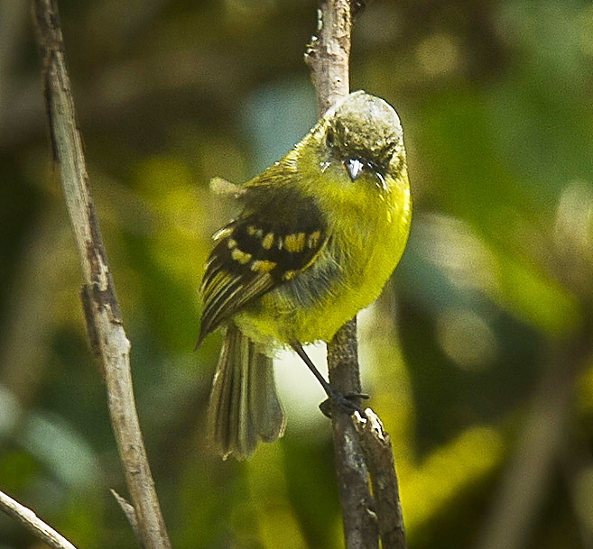 Orange-banded flycatcher (Myiophobus lintoni, syn.: Nephelomyias lintoni) - South Ecuador_S4E2823